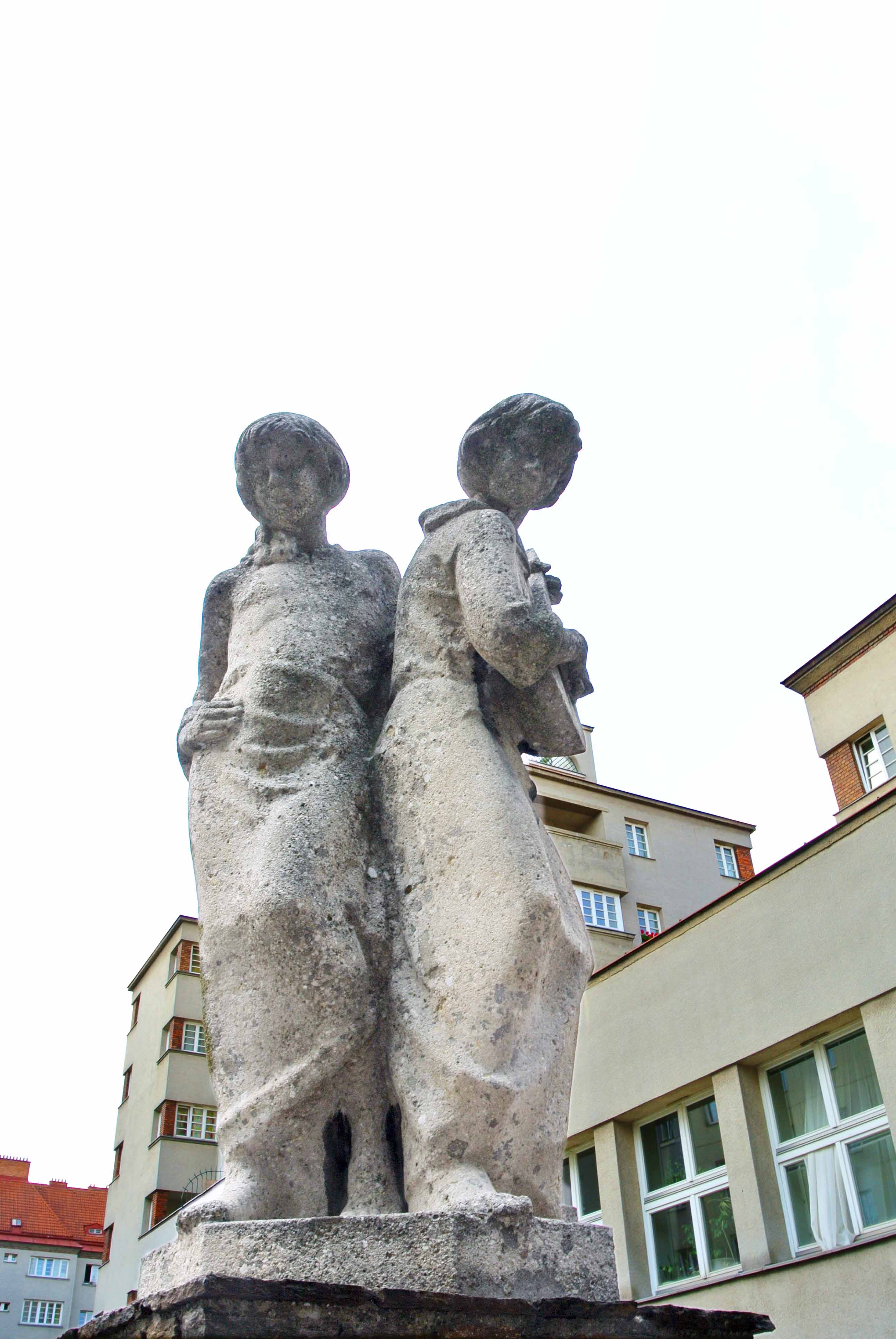 "Musical children" - natural stone sculpture by Margaretha Hanusch, sculptor and art teacher, *1904 ; +1993. The sculpture is located in Vienna 3, Rabenhof-Hainburgerstrasse 68.